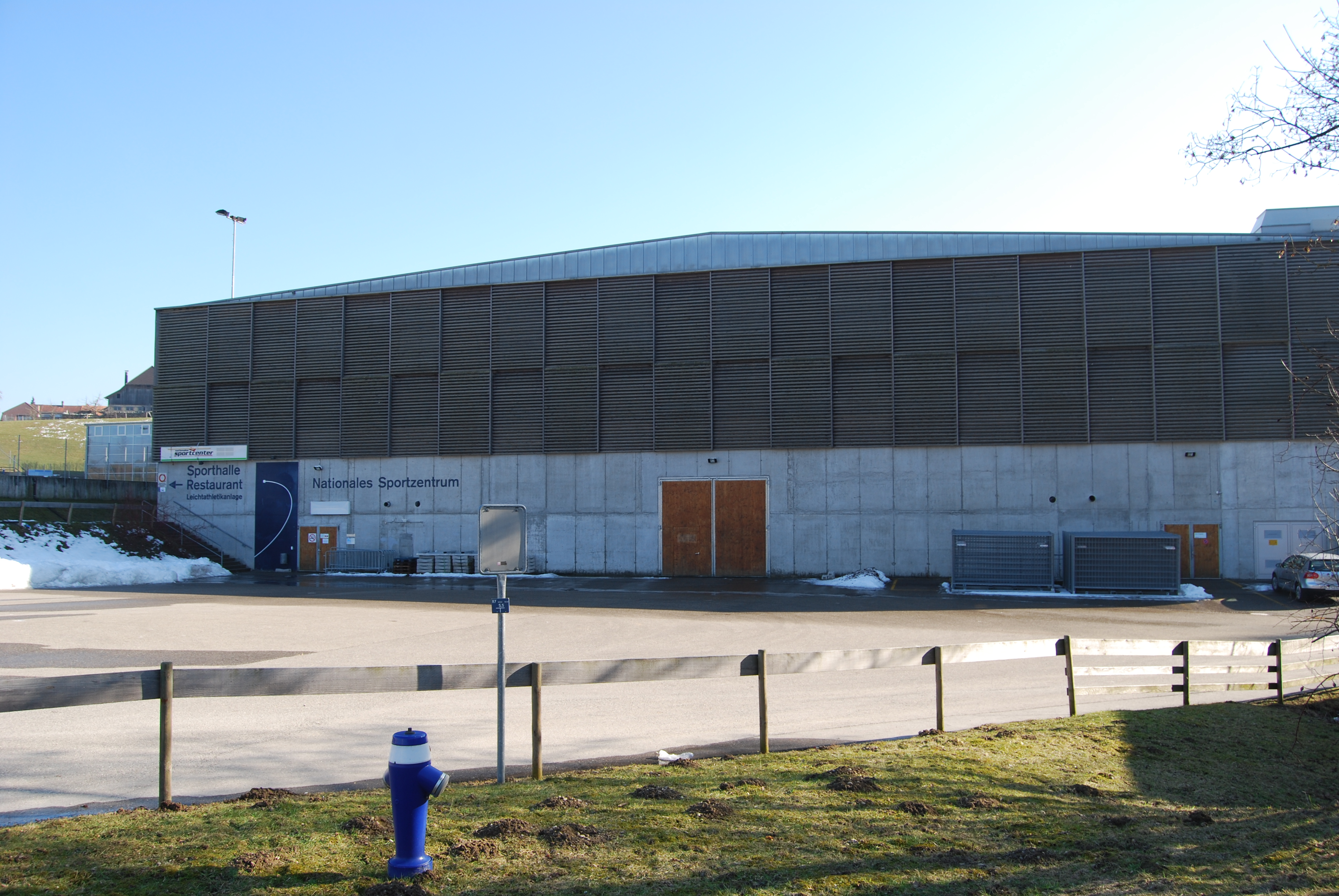 National Sport Center at Schwarzenbach, municipality of Huttwil, canton of Bern, Switzerland